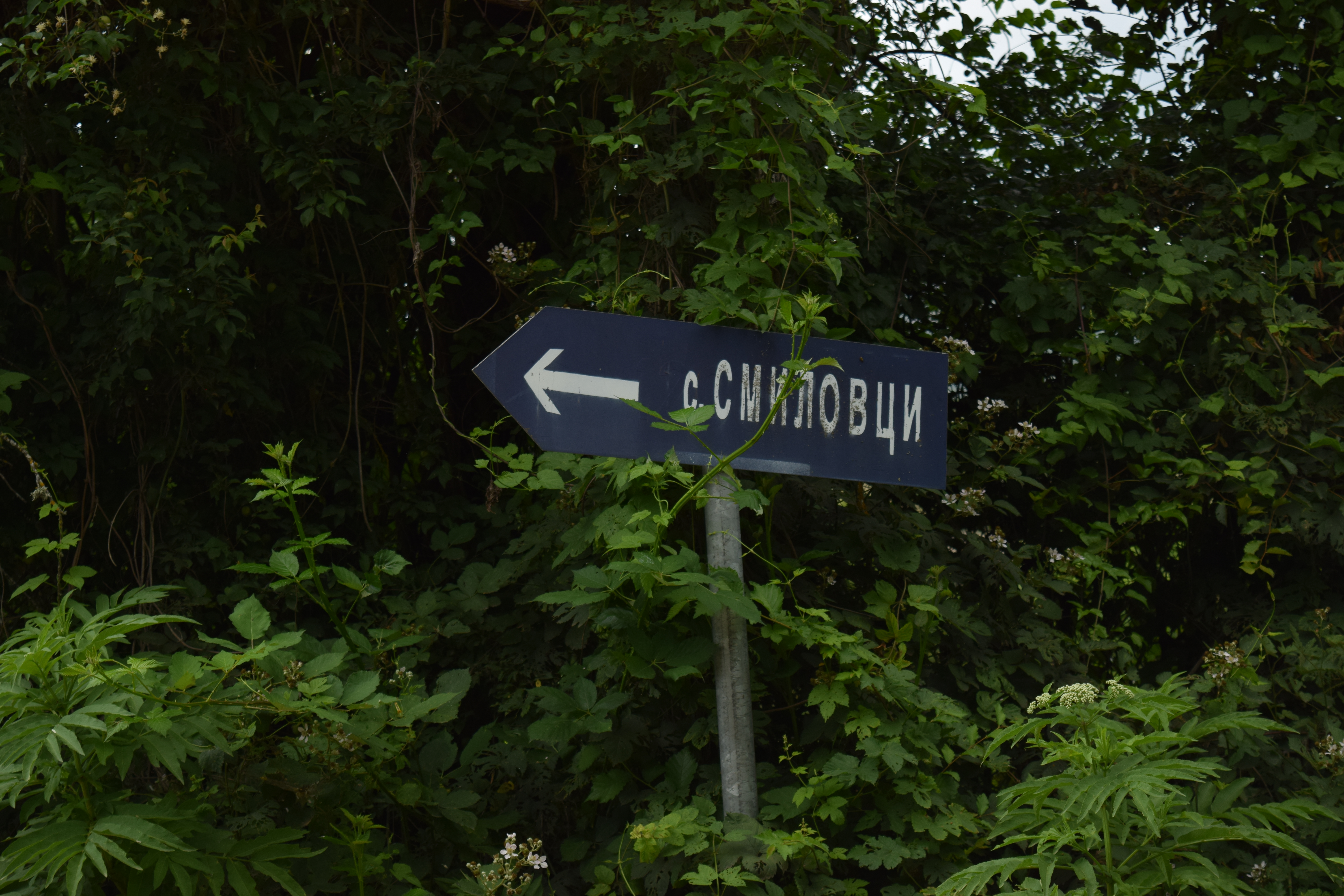 Road sign to the village Smilovci